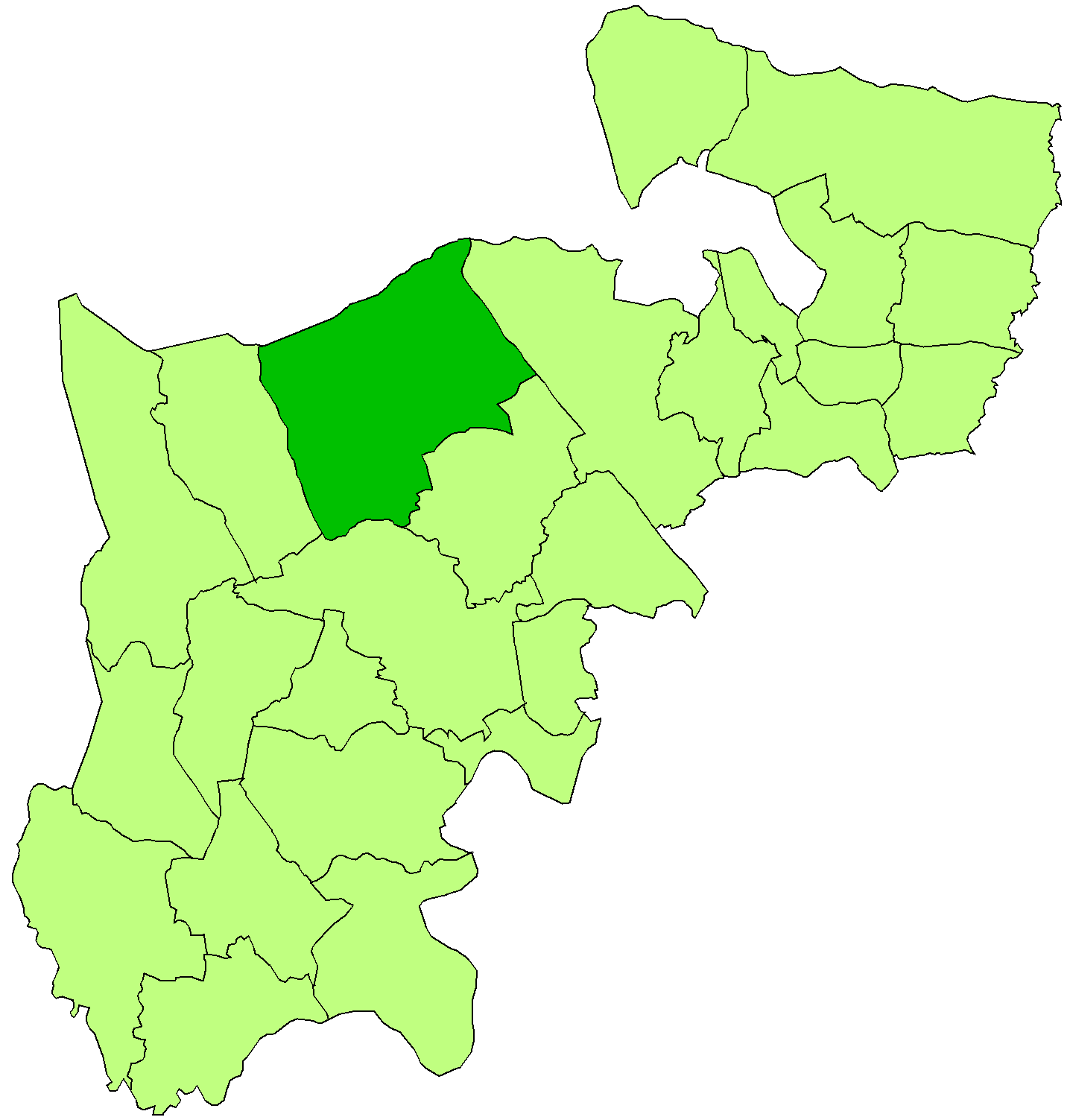 Map of Harrow within Middlesex, England in 1961